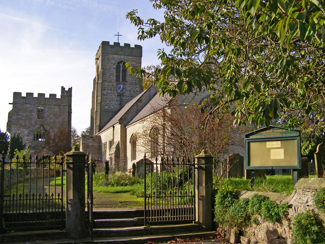 St Nicholas Church, West Tanfield Seen to the left is the Marmion Tower, an English Heritage property.